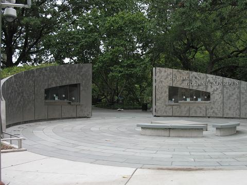 Description: Brooklyn Botanic Garden - Source: own work - Author: self, User:Stavenn